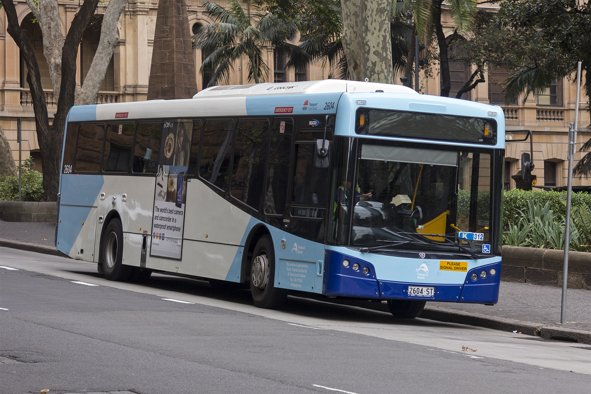 Transport NSW liveried (2604 ST), operated by Sydney Buses, Bustech VST bodied Scania K280UB on Loftus Street in Circular Quay, New South Wales.